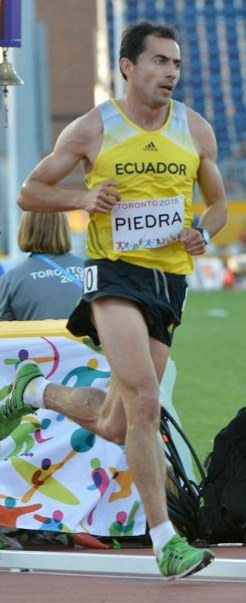 Bayron Piedra competing at the 2015 Pan American Games. U.S. Army photo by Tim Hipps, IMCOM Public Affairs Source: United States Army Family and Morale, Welfare and Recreation directorate This image is a work of a U.S. Army soldier or employee, taken or made as part of that person's official duties. As a work of the U.S. federal government, the image is in the public domain.